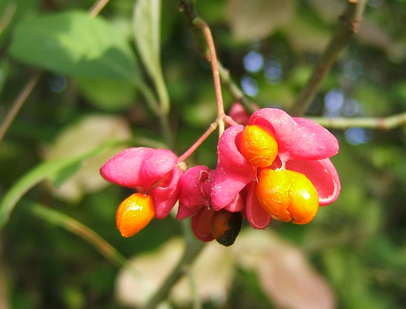 Euonymus seed